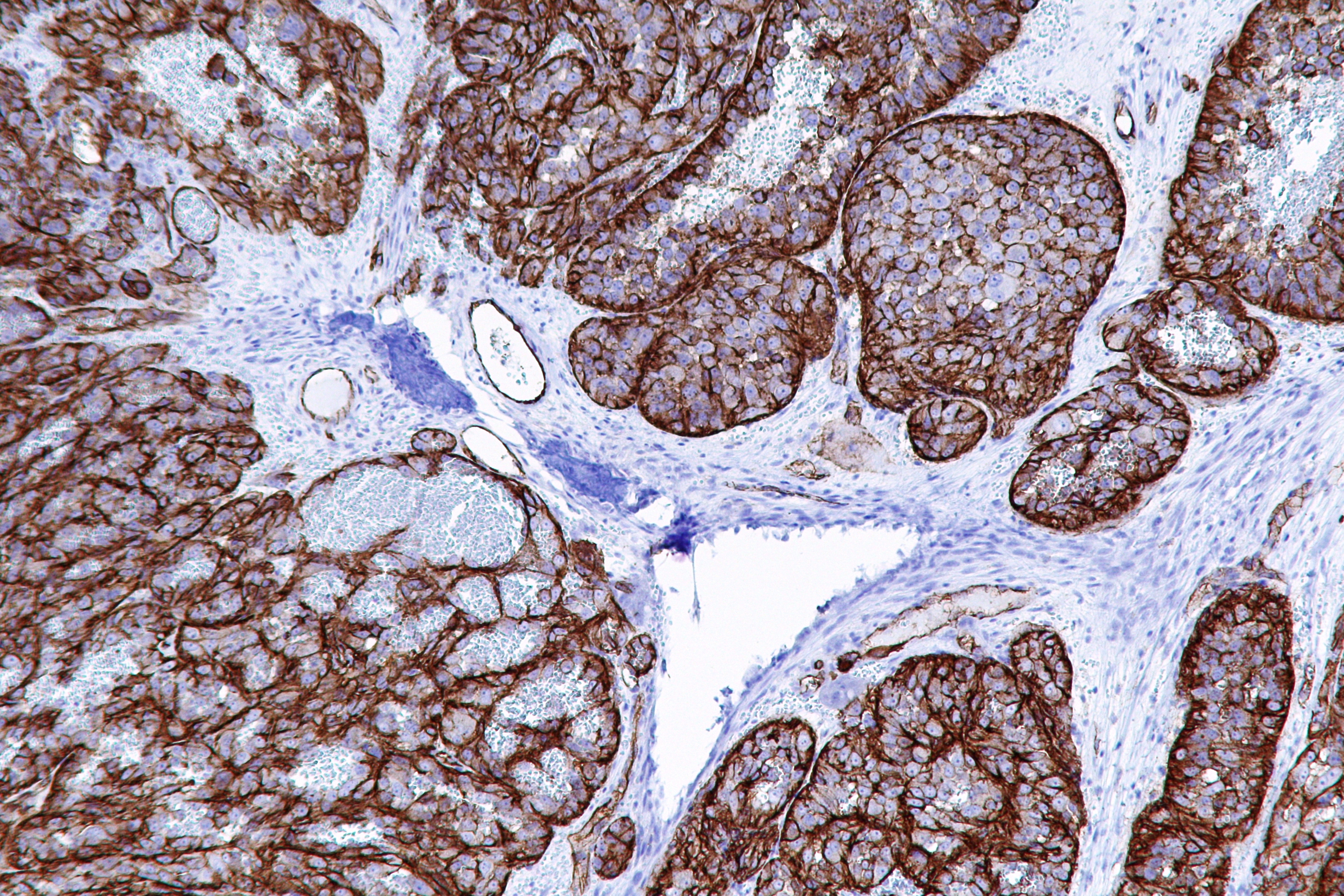 Intermediate magnification micrograph or an epithelioid angiosarcoma. CD31 immunostain. The images show abundant small blood vessels lined by large atypical endothelial cells. Mitoses, including some atypical forms, are present. Related images Very low mag. Low mag. Intermed mag. CD31 immunostain intermed mag. High mag. Very high mag.